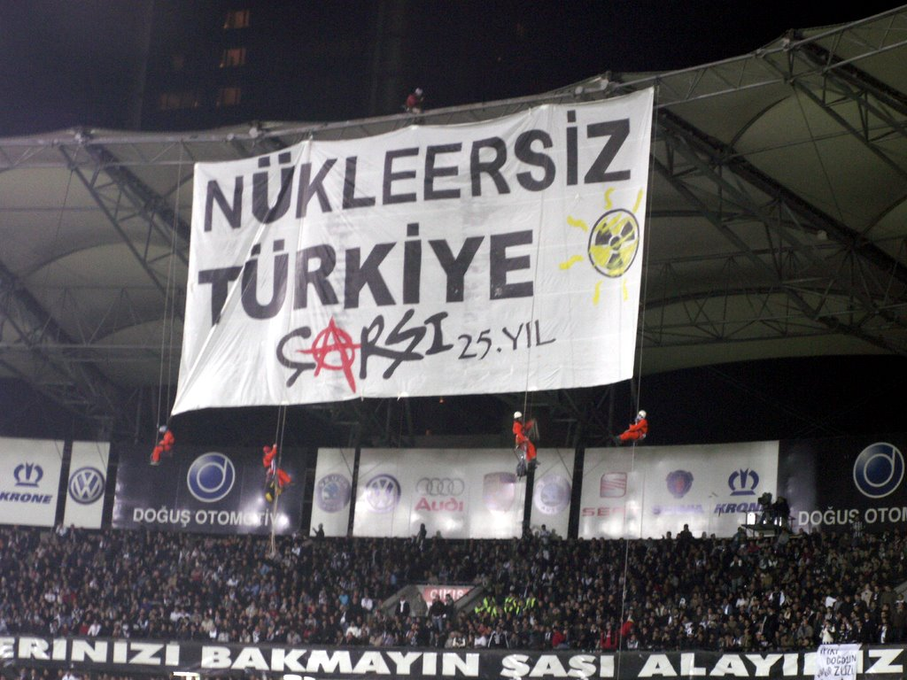 An activity against nuclear power plants from Besiktas Supporters group Carsi and Greenpeace before a derby with Galatasaray.